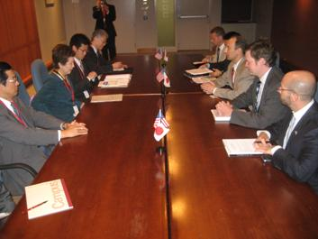 Kyōko Nakayama, Minister of State for Gender Equality and Social Affairs, talked with Tevi Troy, Deputy Secretary of Health and Human Services, at the Department of Health and Human Services in Washington, D.C. on September 17, 2008.